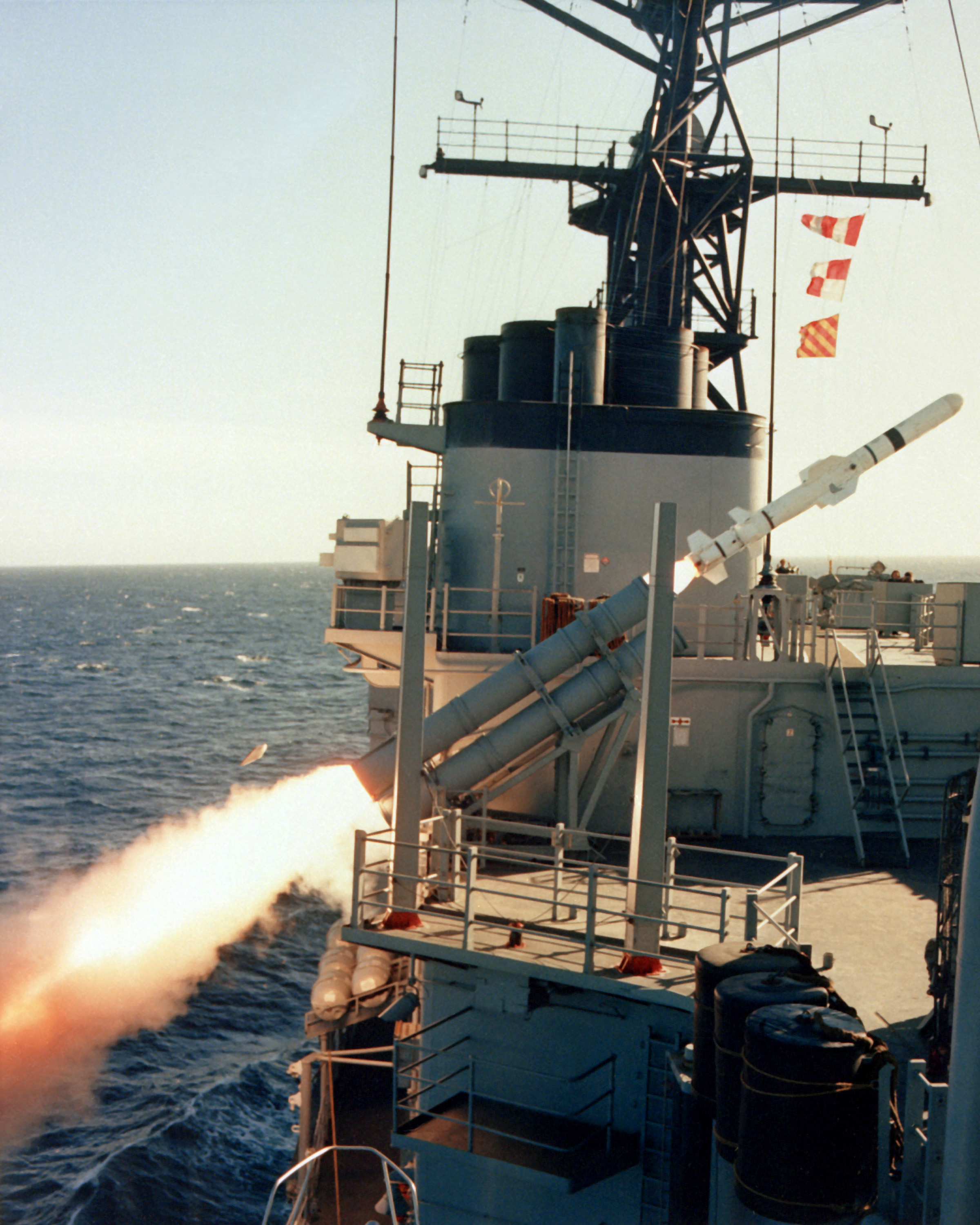 A RGM-84 Harpoon missile immediately after being fired from a canister launcher aboard the U.S. Navy destroyer USS Fletcher (DD-992), in 1980.